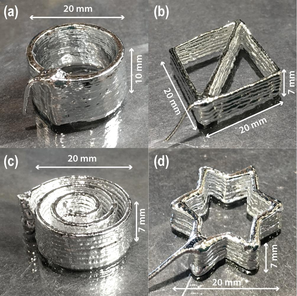 Novel and highly conductive metal paste material is constructed from liquid metals and optimized for the additive manufacturing process and multilayered stretchable electronics. Metal nano- and microparticles are sonicated into galinstan, a liquid metal whose rheological properties are transformed into pliable pastes that retain electrical, self-healing, and stretchable qualities of liquid metals that are ideal for soft sensors (Image courtesy Dogan Yirmibesoglu).